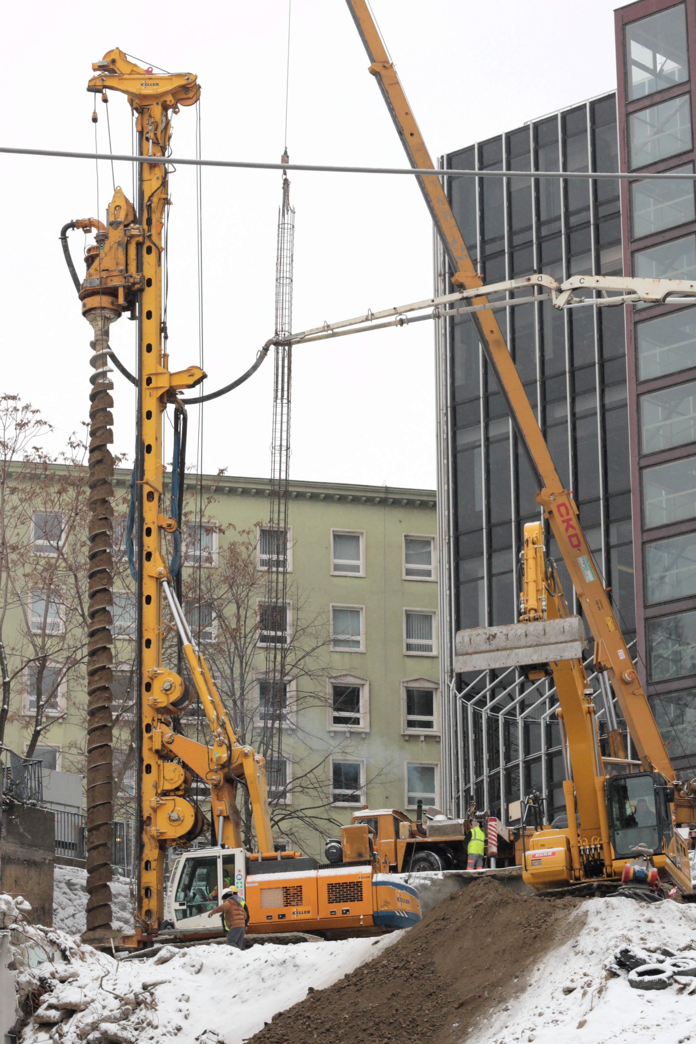 Drilling hole for a steel-reinforced pile wall. The reinforcing steel is hanging next to the drilling rig.